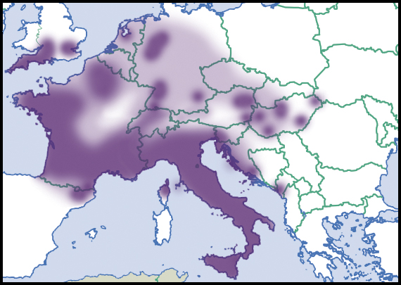 Hygromia cinctella (Draparnaud, 1801). Distributional range in Europe, scientific state of knowledge of 2012. Source description in English. Light colour indicated rare occurrences or regions where the species could eventually be expected to occur. Dark colour indicated relatively reliable occurrences, as well as regions where the species was expected to occur, and where the species was not known to be extremely rare. Dark colour indications were not necessarily based on published records. Species summary in AnimalBase